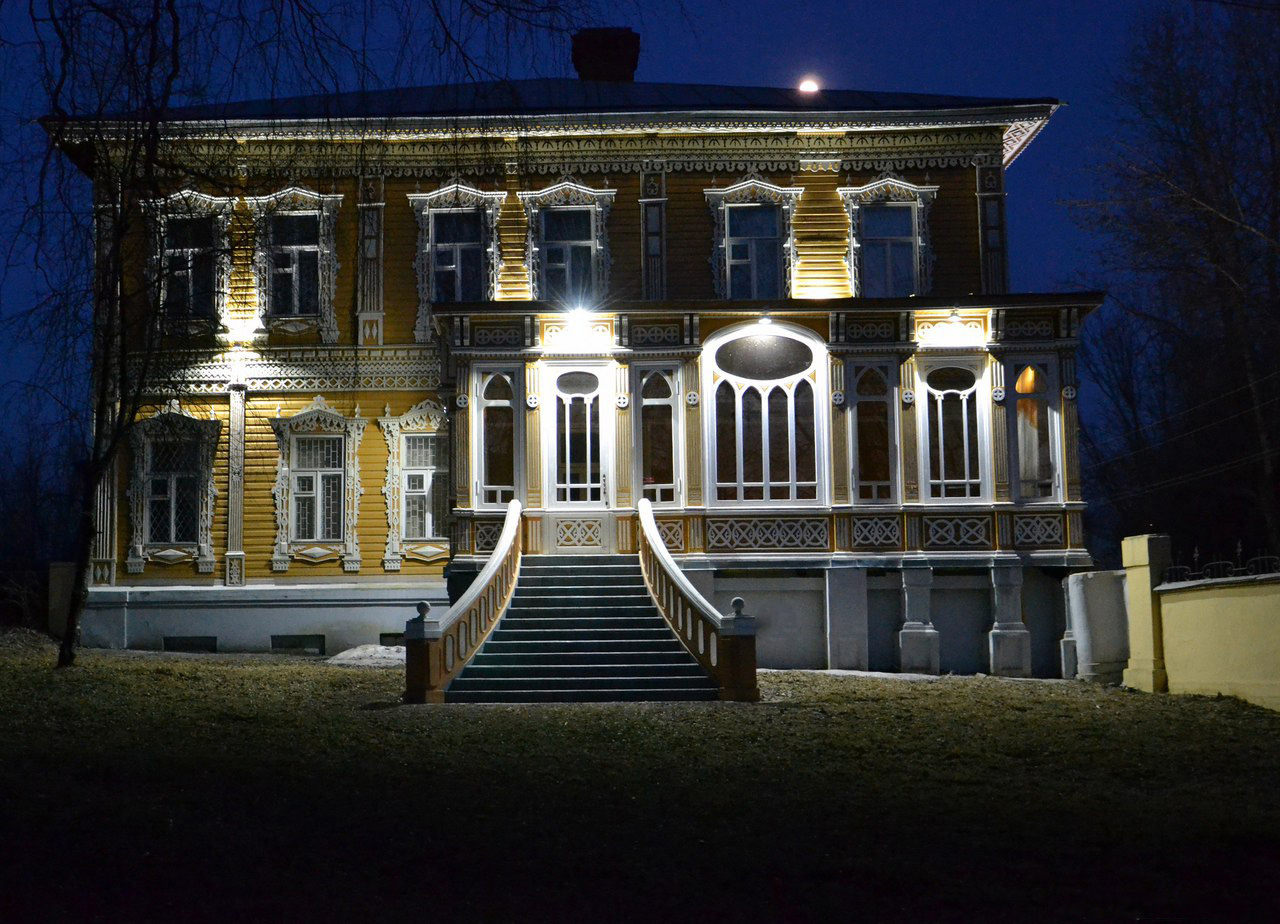 Losev Mansion - D. A. Trubnikov Picture Gallery